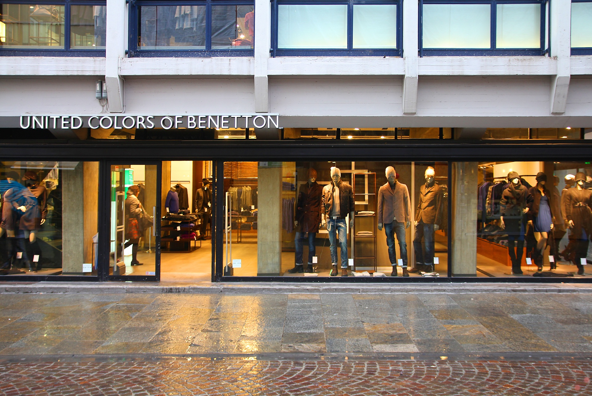 United Colors of Benetton fashion shop in Parma, Italy.